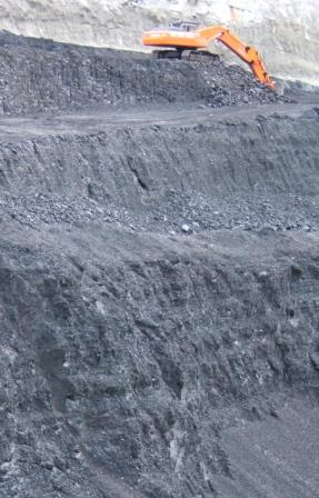 A picture showing the open cast mine at Kai Point Coal Mine, Kaitangata